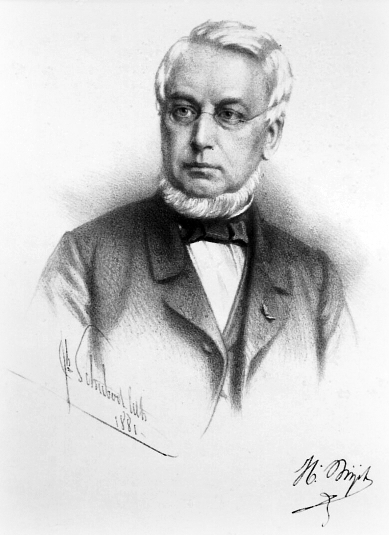 portrait of Pierre-Henri Nyst (1813-1880) - Belgian-Dutch palaeomalacologist.